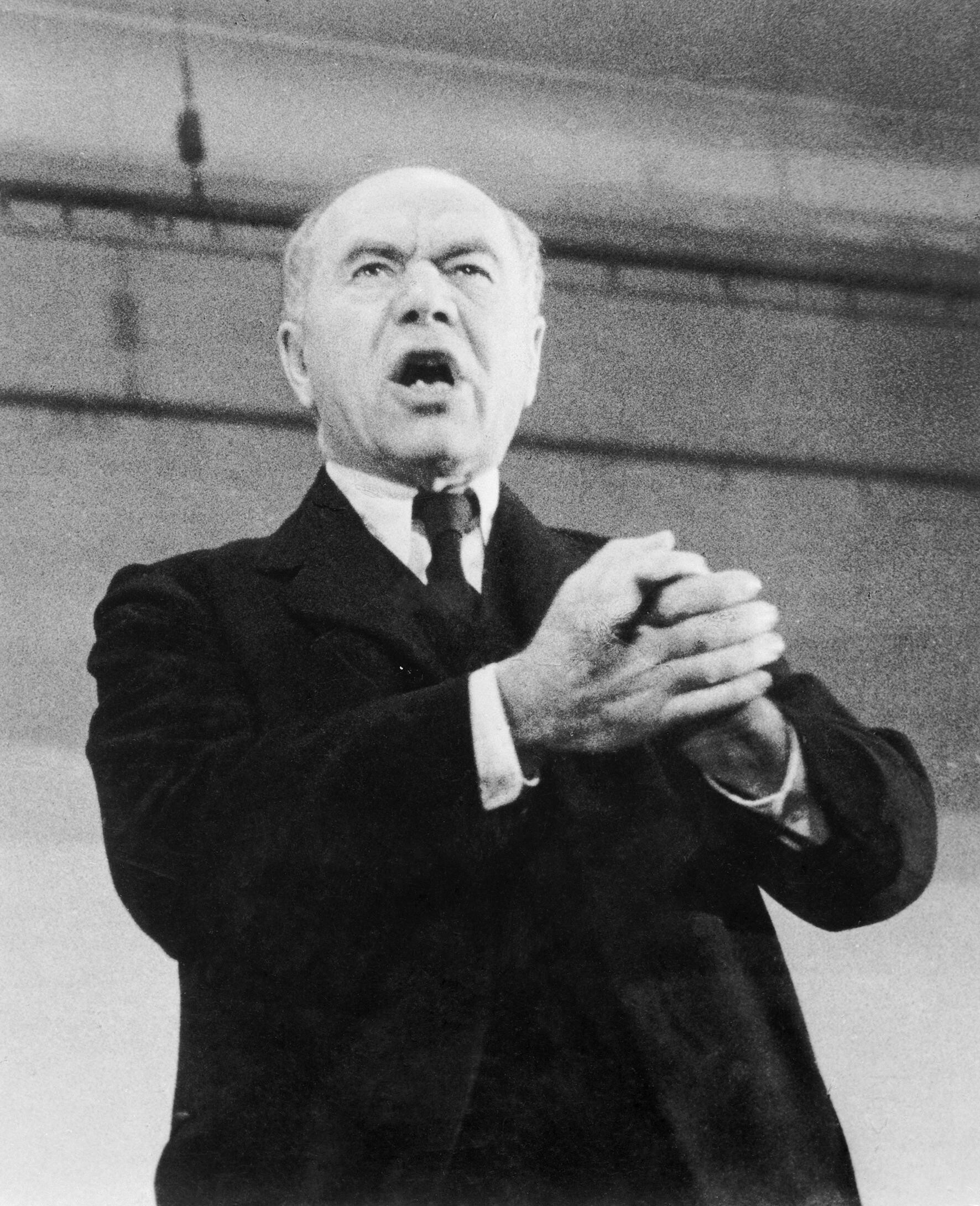 Maxwell Aitken (lord Beaverbrook) during the Second World War A characteristic pose of Maxwell Aitken (Lord Beaverbrook) while making a speech during the Second World War.